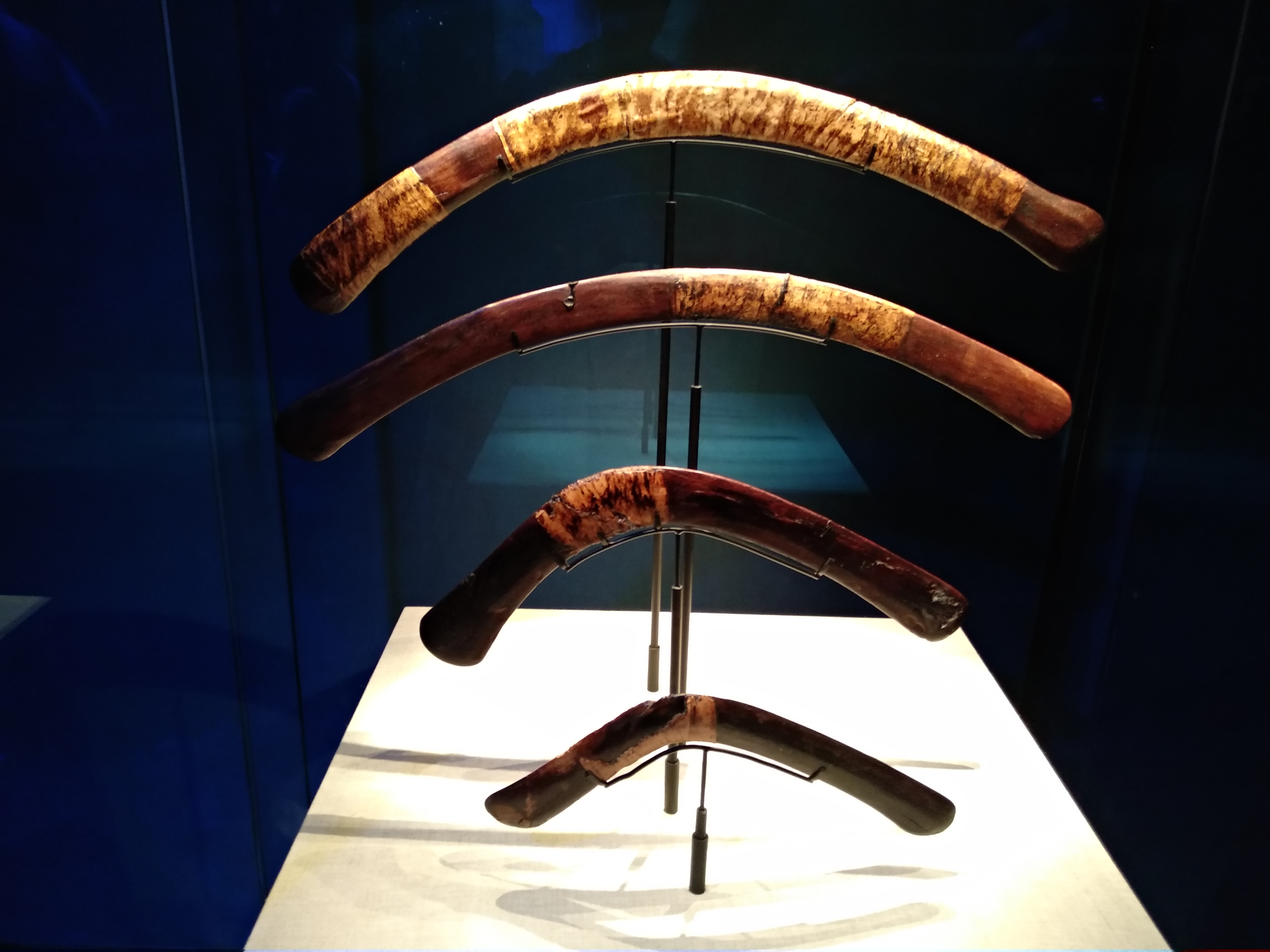 Hardwood boomerangs that could not return to their launcher due to their curvature unlike other boomerangs found in Tutankhamun's tomb. Photo taken during the Tutankhamun exhibition in Paris in 2019.